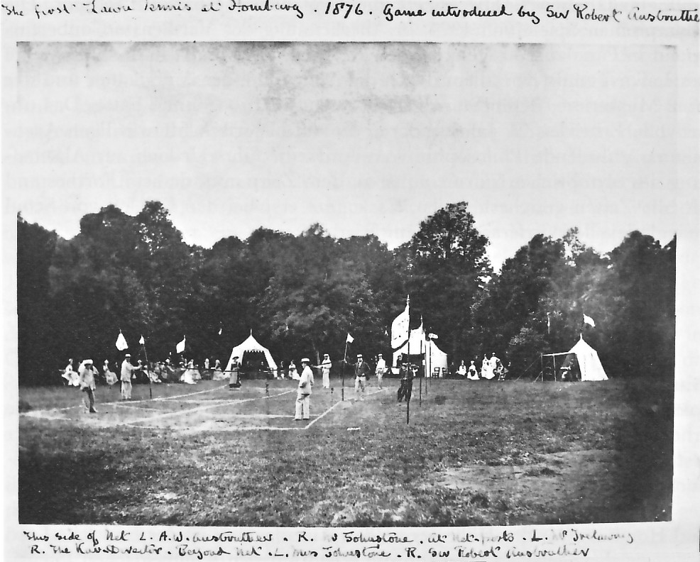 First known photograph of Tennis in Germany, taken at Bad Homburg in 1876. Note on top reads: "The first Lawn Tennis at Homburg. 1876. Game introduced by Sir Robert Anstruther". Note on bottom reads: "This side of Net L. A.W. Anstruther. R. Mr. Johnstone. At Net-posts. R. The Kur-Director. Beyond Net. L. Miss Johnstone. R. Sir Robert Anstruther"